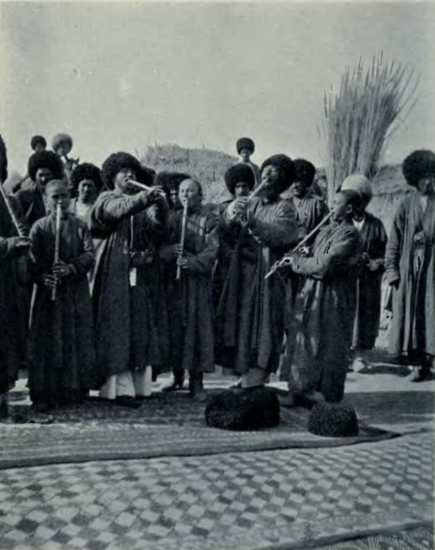 Turcoman musicians in the late 19th century.